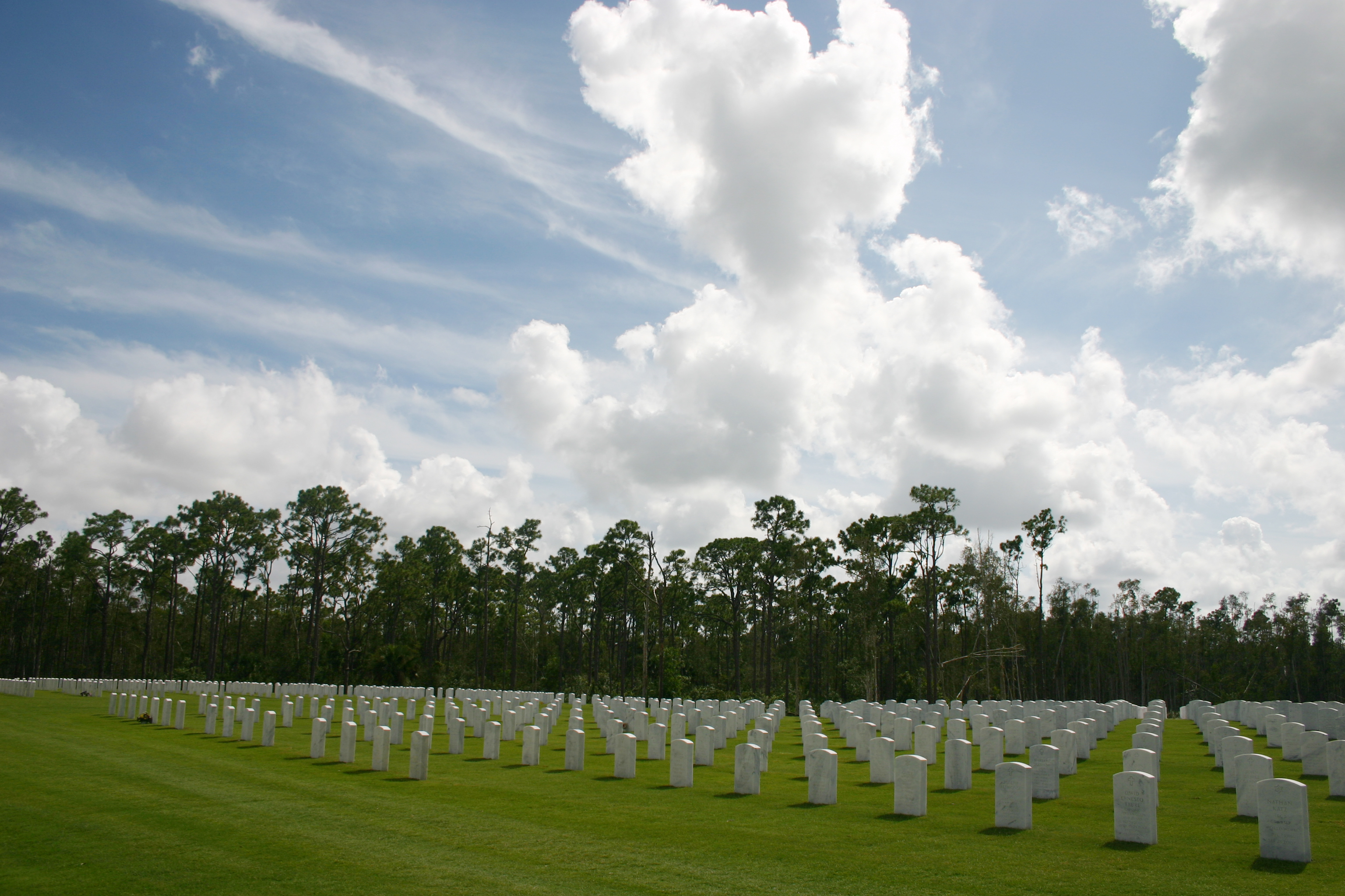 Rows of hedgestones South Florida VA National Cemetery, facing west, located in Lake Worth, Florida.